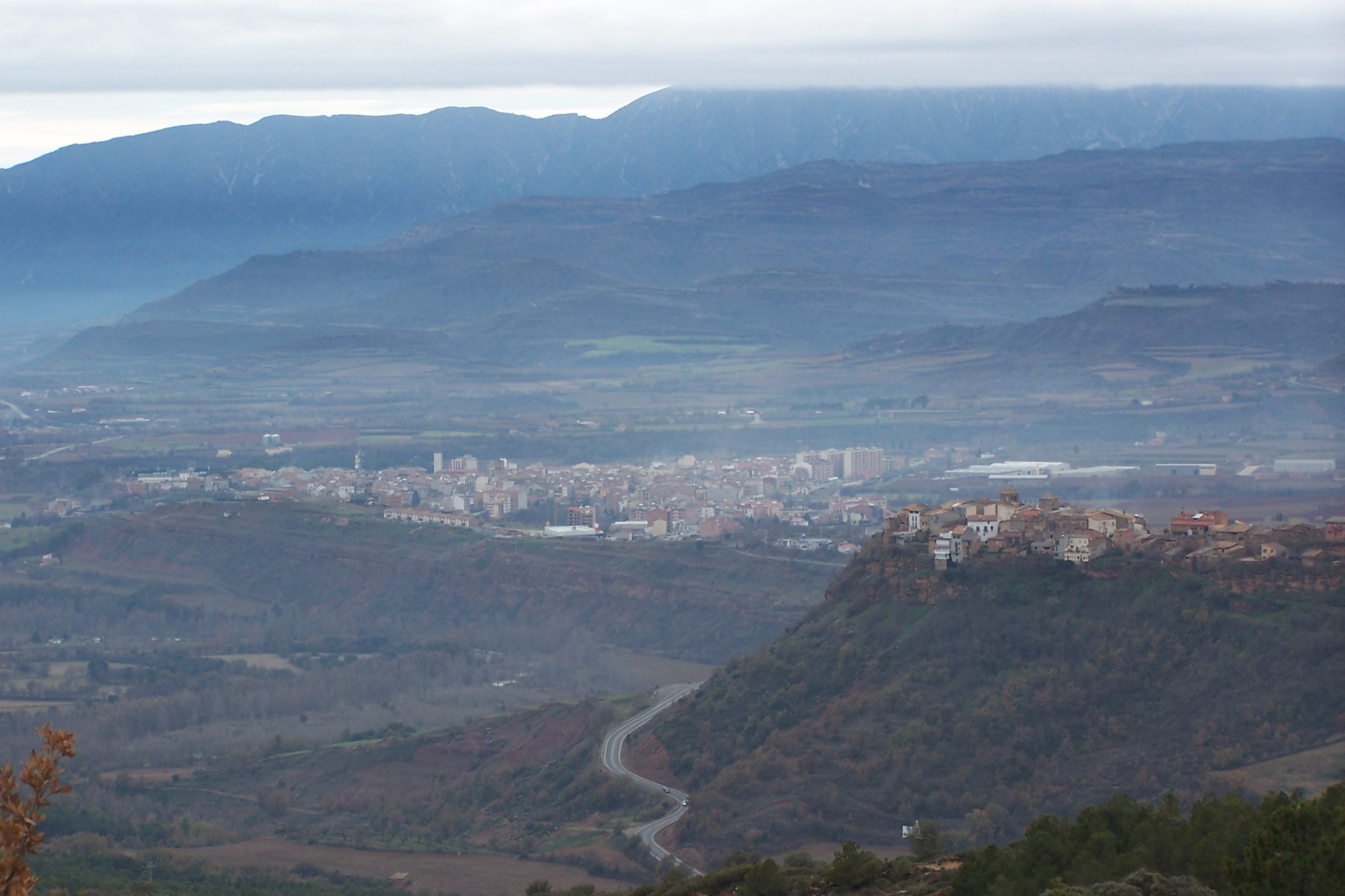 Overview of Tremp and surrounding area.